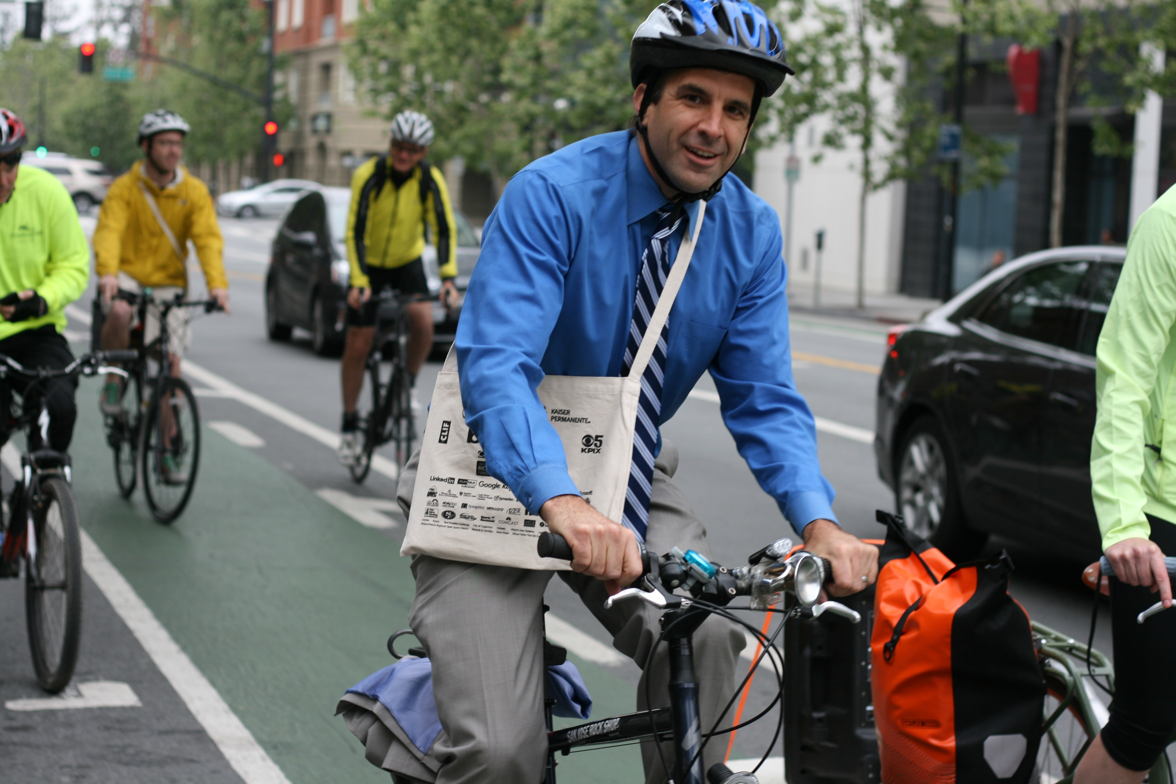 San Francisco Bay Area Bike to Work Day May 12 2016 - Ride from downtown San Jose to Oracle Santa Clara via the Guadalupe River Trail (mostly).